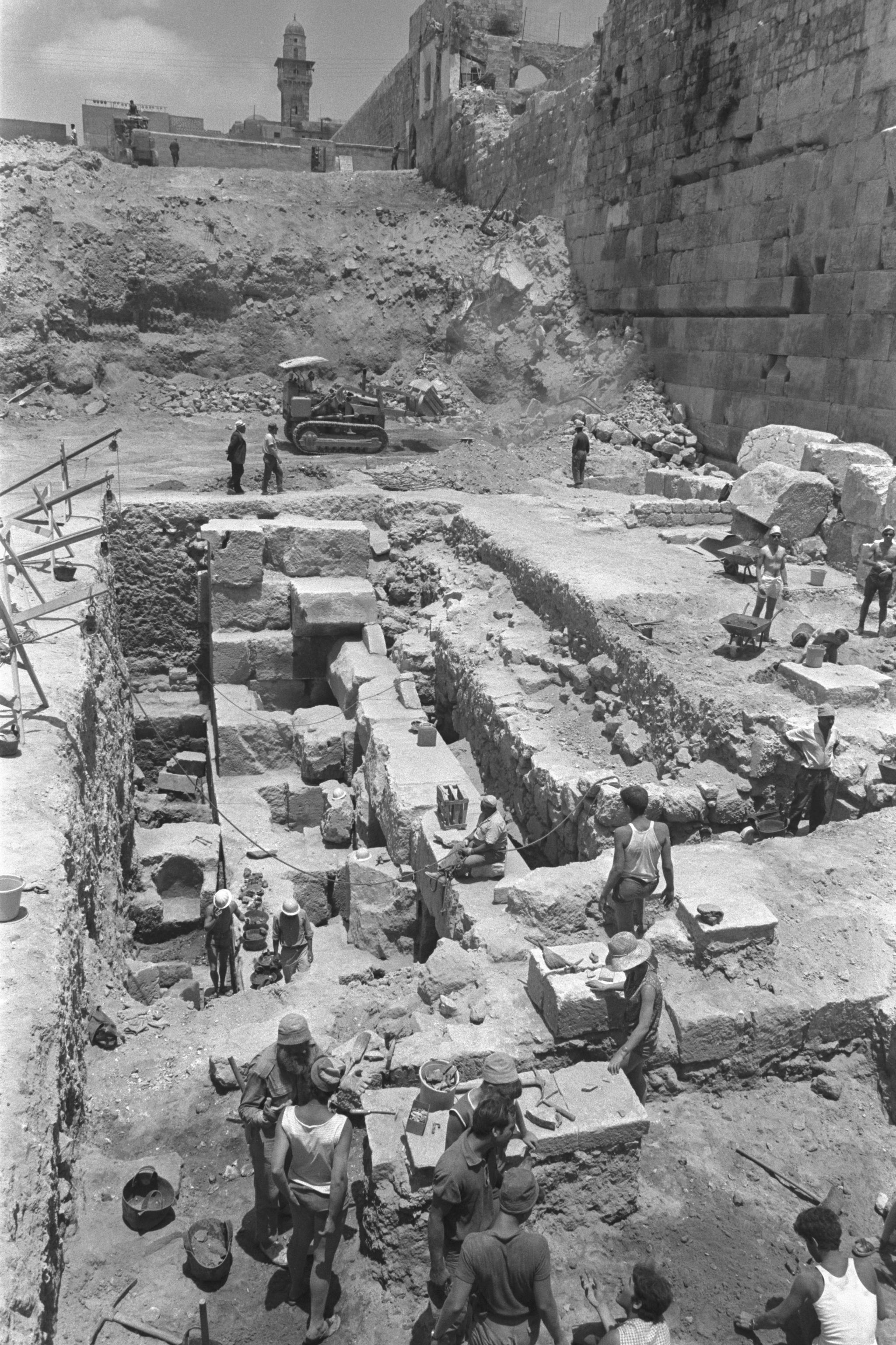 The foundation of one of the arches of an ancient bridge (Robinson's Arch) connecting the upper town of ancient Jerusalem with the Temple Mount. בסיסו של גשר עתיק שחיבר בעבר בין ירושלים העתיקה והר הבית Photo: Moshe Milner (1946–) Alternative names Miylner, Moše; Milner, Mosheh; Moshé Milner; Milner, M.; Mîlner, Moše; Miylner, MošehDescriptionIsraeli photographerצלם ישראליDate of birth 1946 Location of birth Germany Authority control : Q28750411 VIAF: 100999744 ISNI: 0000 0001 0804 0507 LCCN: n82072104 GND: 115699732 BNF: 15548788n WorldCat creator QS:P170,Q28750411 , 07/01/1969